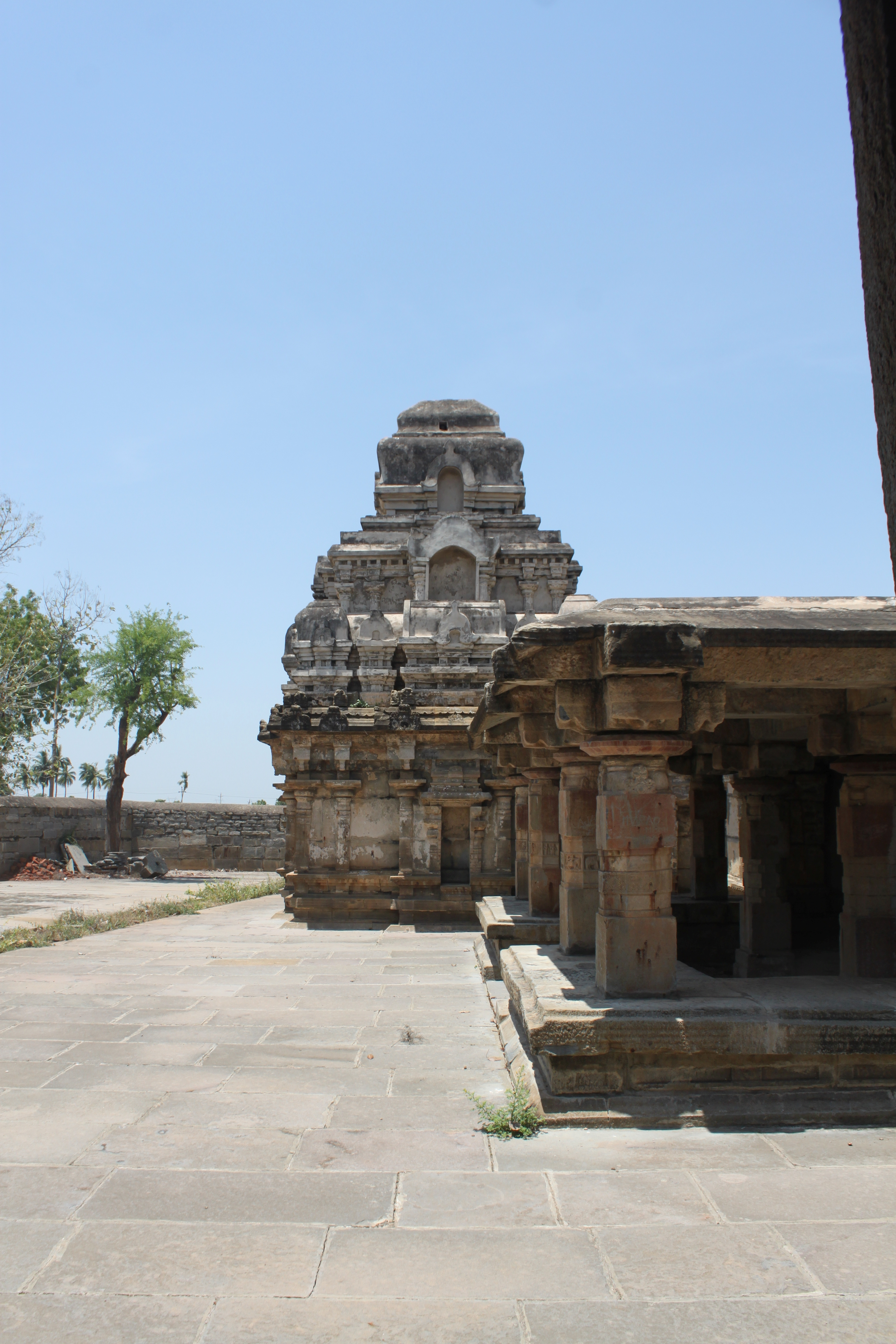 Indranatheswara Temple, View from the Entrance